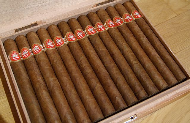 Box of H. Upmann Sir Winstons